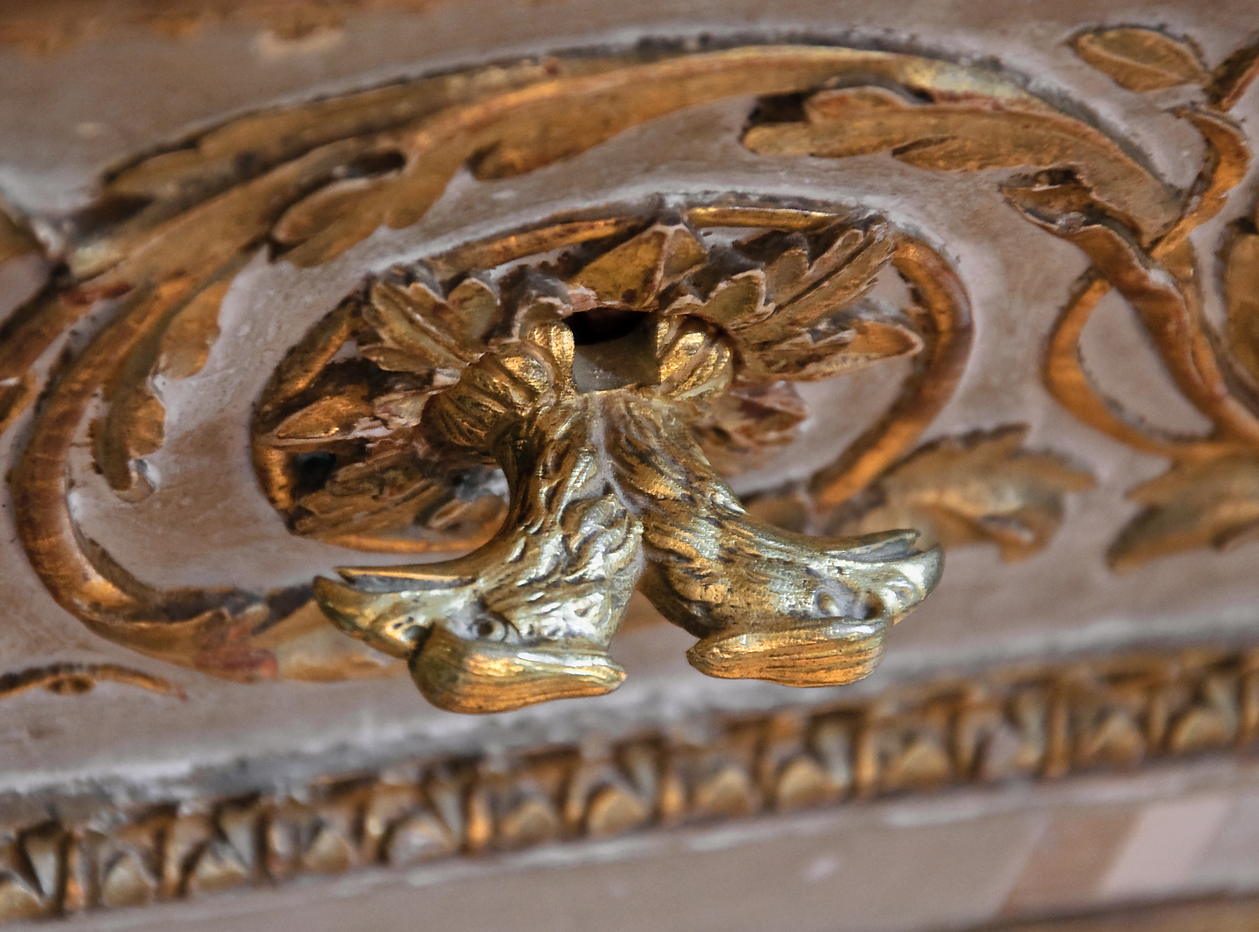 Drawer pull in the shape of a double-headed eagle, reminiscent of the House of Austria, in the library of the Petit appartement de la Reine, Palace of Versailles.